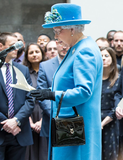 The Queen gives a speech at Home Office HQ.